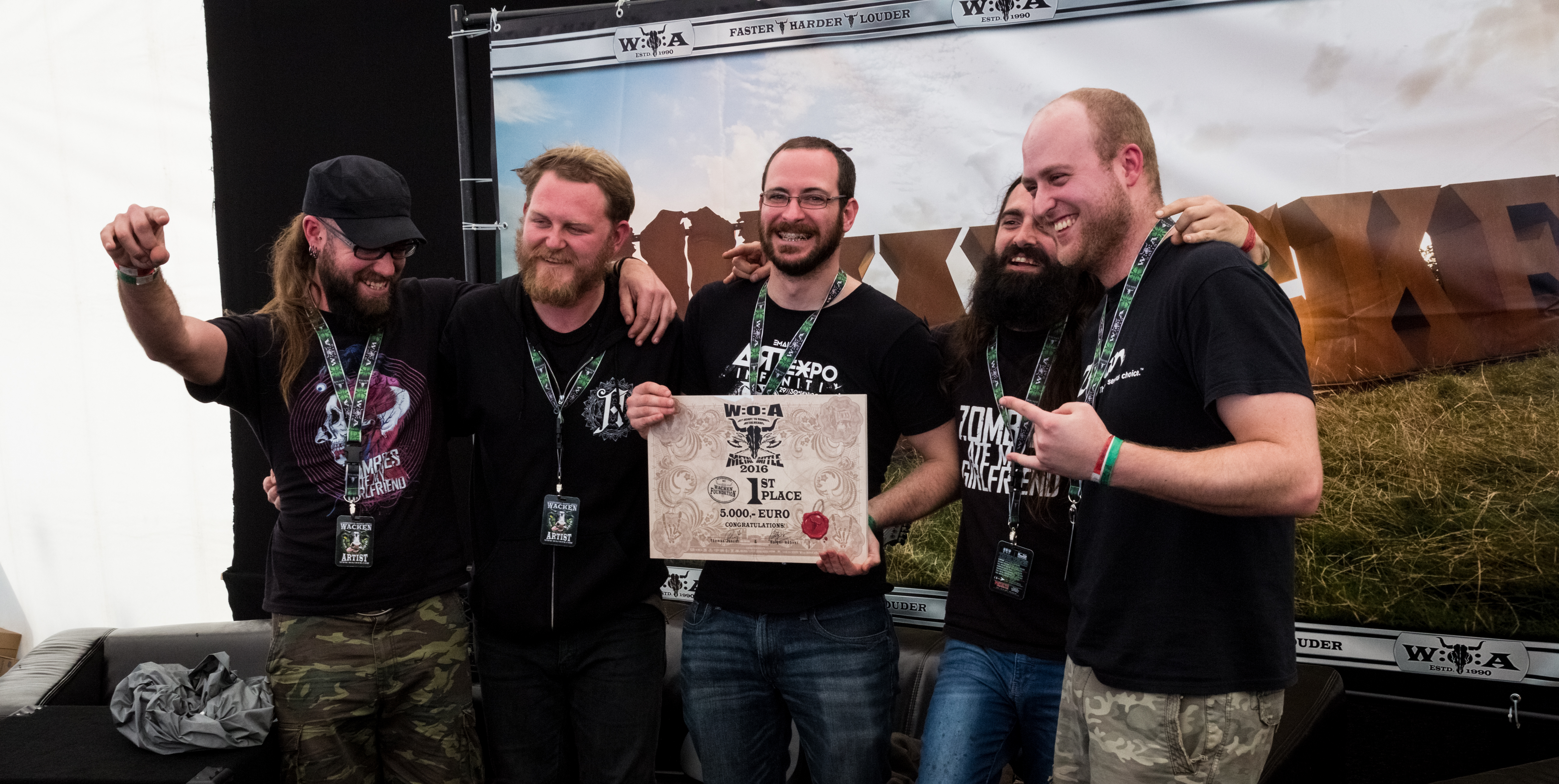 Zombies ate my girlfriend from South Africa - 1. Place at Metal Battle Wacken Open Air 2016